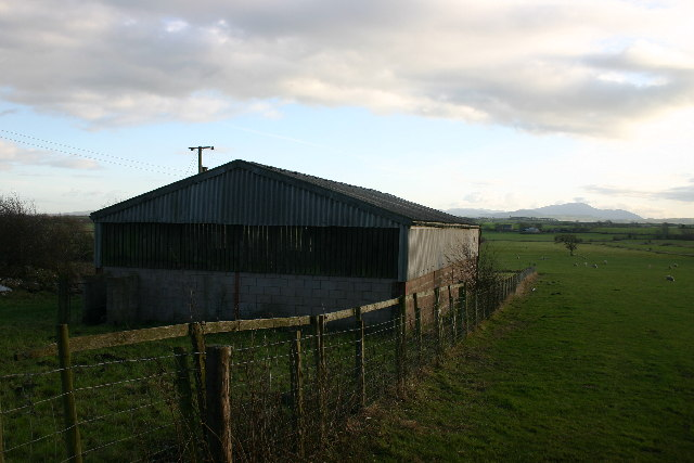 Barn with a View. Skiddaw in far background